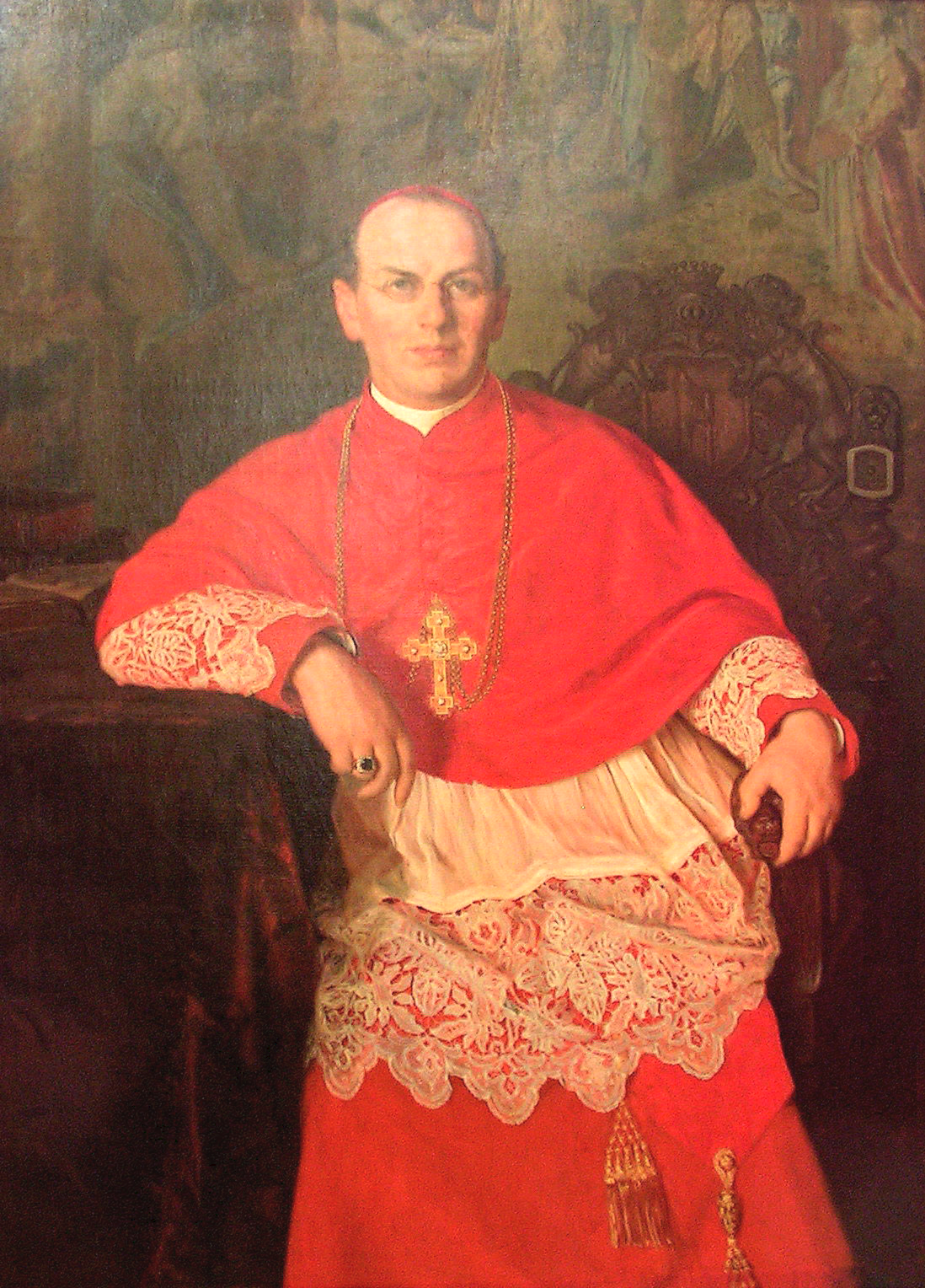 Portrait of Florian Stablewski (1841-1906)